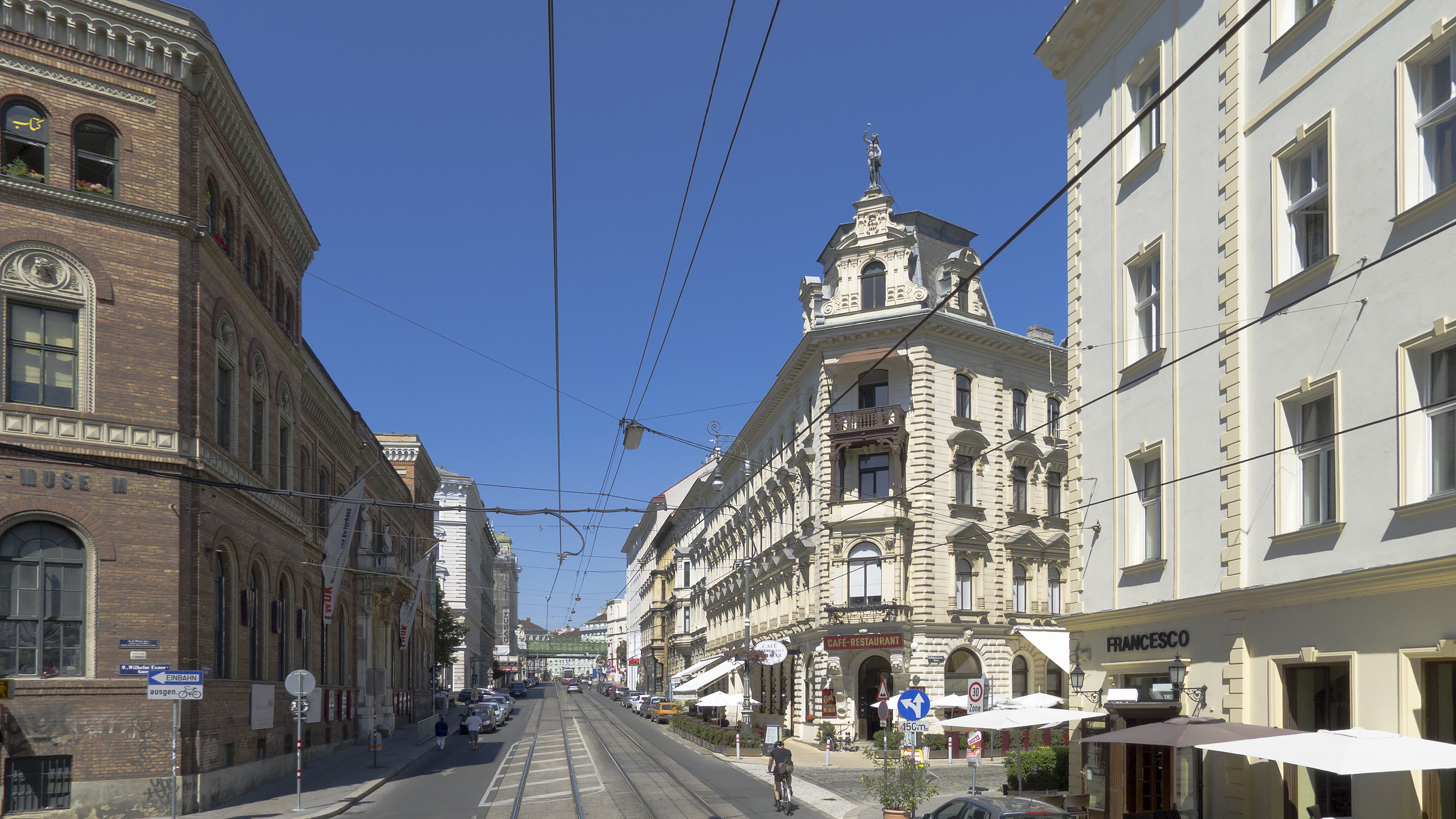 Währinger Straße in Wien 18 bei der Wilhelm-Exner-Gasse Richtung Nordwesten